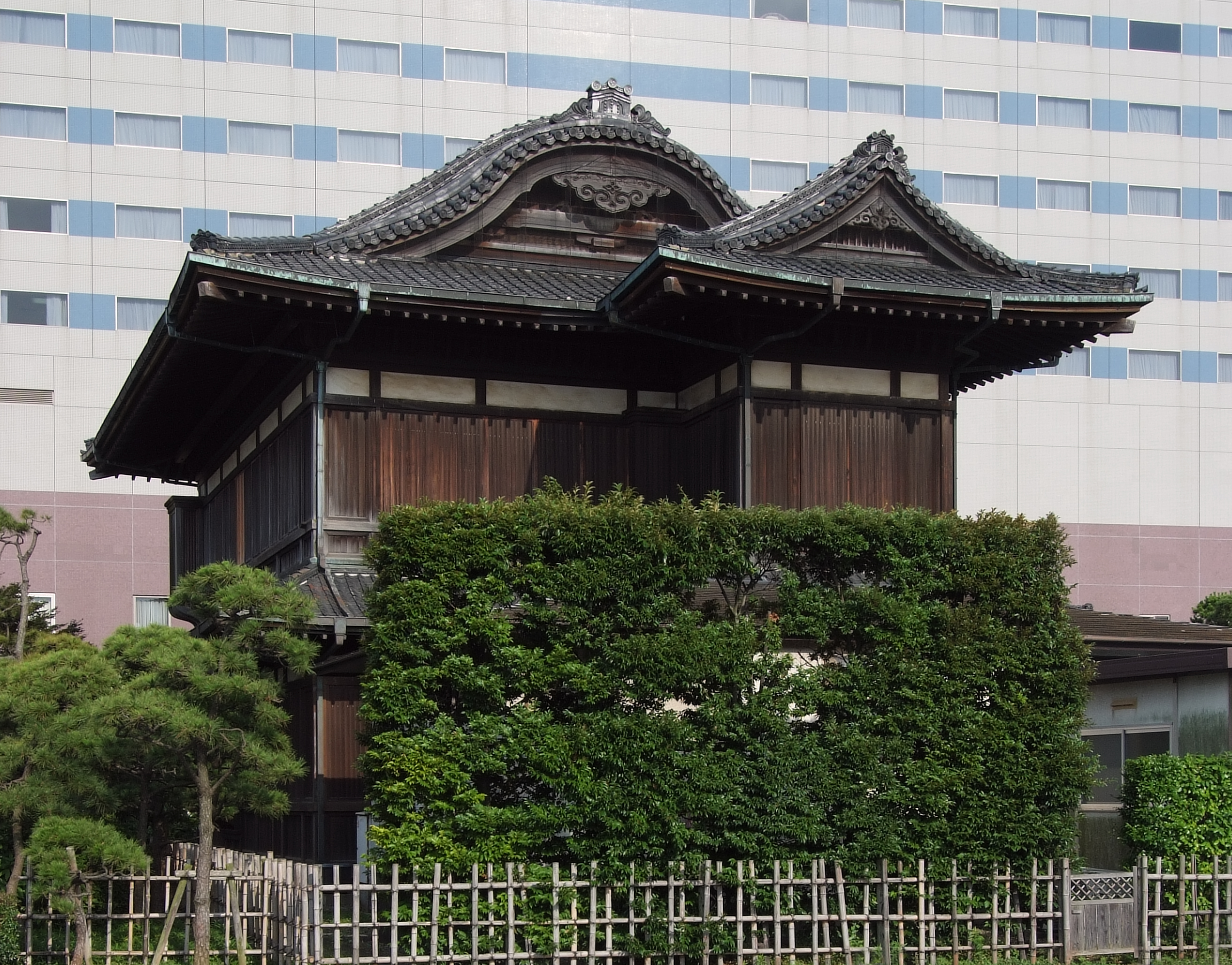 Kikokaku, Funabashi Chiba Japan, Built in 1910.